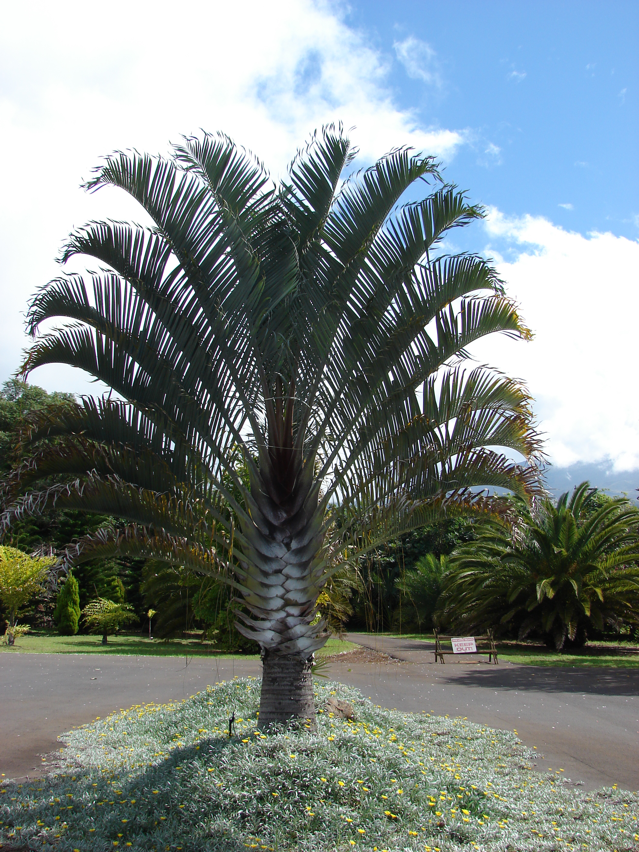 Neodypsis decaryi (habit). Location: Maui, Enchanting Floral Gardens of Kula